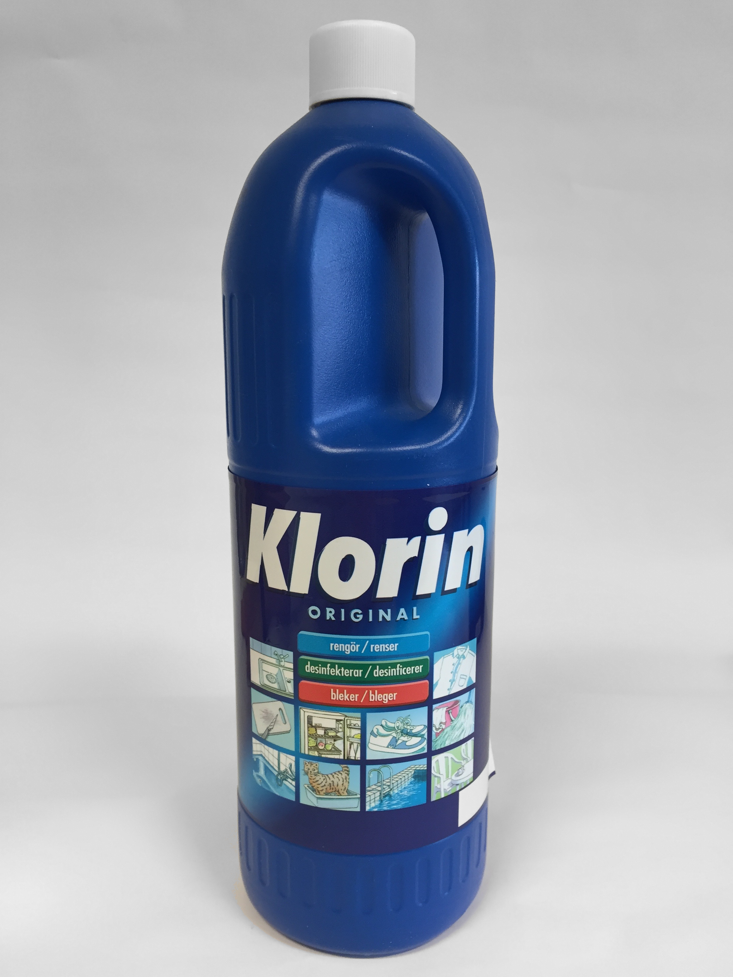 A bottle of Klorin™, NaClO(aq) (sodium hypochlorite in aqueous solution).